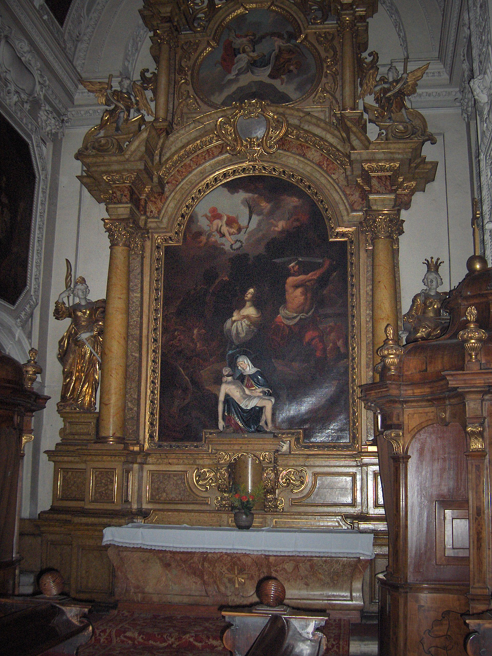 Chapel of St. Catherine of Alexandria; painting by Tobias Pock; Dominikanerkirche, Vienna, Austria